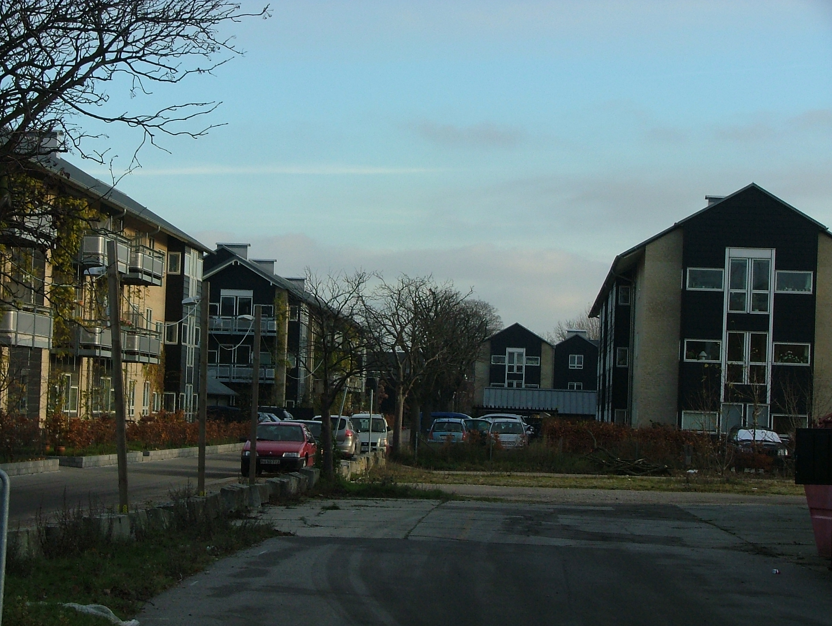 Buildings from the former Naval Base Copenhagen: Modern appartement buildings at the old Naval Base Photo by Jan Kronsell, 2005